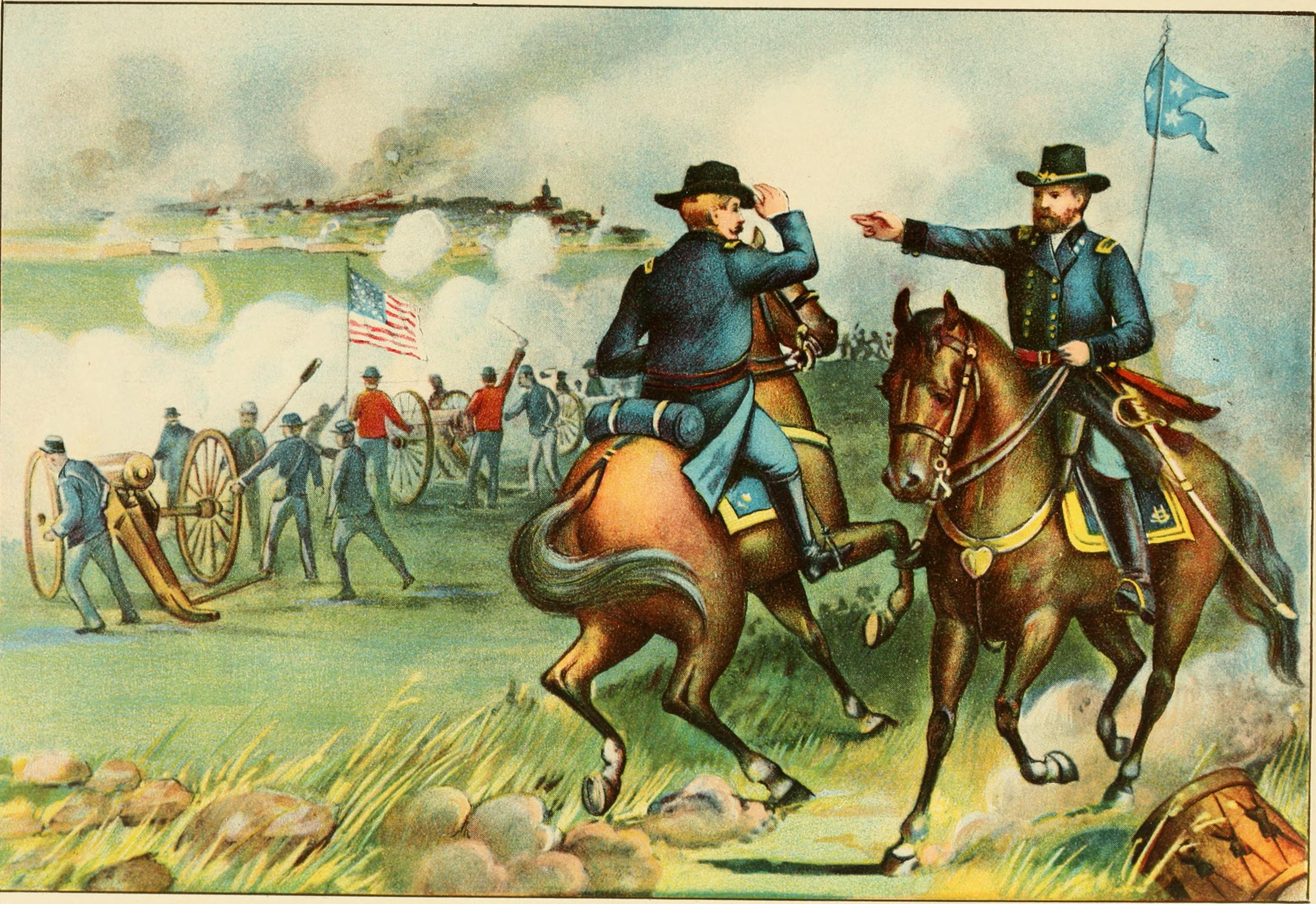 General Ulysses S. Grant at Battle of Vicksburg Title: The story of our nation, from the earliest discoveries to the present time ... together with a graphic account of Porto Rico, Cuba, Hawaii and the Philippine islands .. Year: 1902 (1900s) Authors: Stratton, Ella (Hines), Mrs. (from old catalog) Subjects: Publisher: Philadelphia, National publishing co Text Appearing Before Image: GENERAL SHERMAN AT THE OUTBREAK OF THE WAR. Crittenden occupied Chattanooga, Tenn. ; and Steele took Little Rock,Ark., September io, said Charlie. That briugs us to the battle of Chickamauga, Ga, September19-20, when Bragg was victorious, and Rosecrans lost sixteen thousandmen, added Nettie. Text Appearing After Image: THE GREAT CIIVL WAR. 257 But November 23-25, the Federals defeated Bragg at the battle ofChattanooga and Lookout Mountain, declared Josie. And December 4, Lougstreet raised the siege of Knoxville, Tenn.,and that ended the battles for 1863, said Hadley. The close ofthe year brought hope to the North. The navy had not been idle ; and,in spite of the losses in Chancellorsville and Chickamauga, and the inva-sion of Maryland and Pennsylvania, the South were fairly started on theroad to defeat; the Confederate army was driven from Missouri and thegreater part of Arkansas ; the Mississippi river was in the hands of theFederals ; Tennessee also ; and the invasion of the North had ended indisaster. New industries had been opened, and, in fact, the North wasgrowing richer, as the South was growing poorer, because of the war. kt So the year opened with bright promise for the National cause, although Richmond was still baffling thearmy of the Potomac; Charleston was still held bv the Confederate